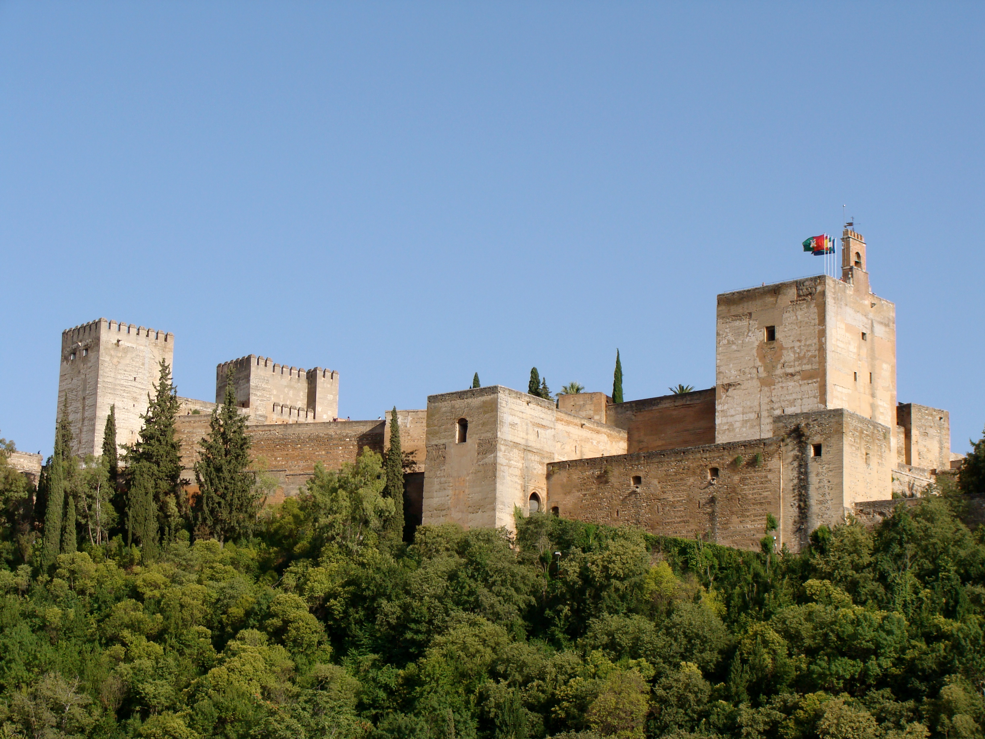 view of part of the Alhambra, (Alcazaba, the fortress), taken from Albaicin, Granada, Spain